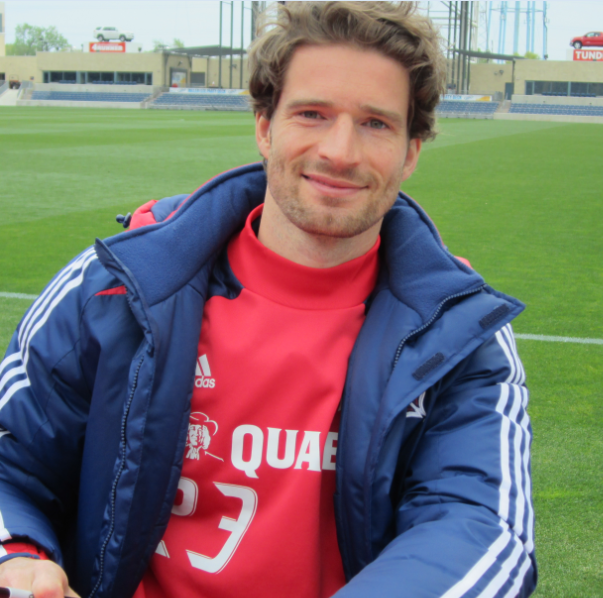 Arne Friedrich at the Chicago Fire's Meet the Team event at Toyota Park, 29 April 2012